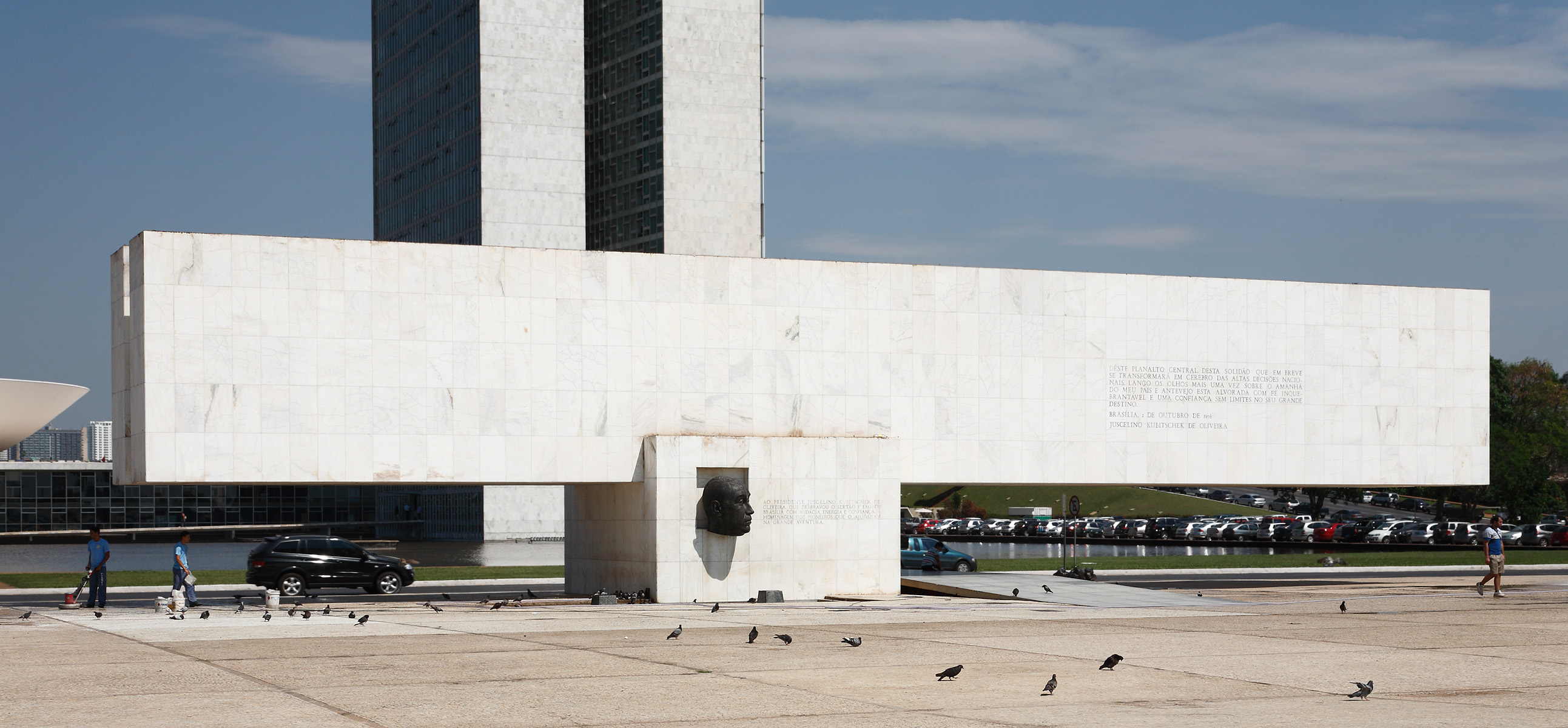 The City's Museum (historical museum of Brasília) on the Praça dos Três Poderes in Brasília, Brazil, with the portrait of Juscelino Kubitschek on one of its sides. In the background, the National Congress.